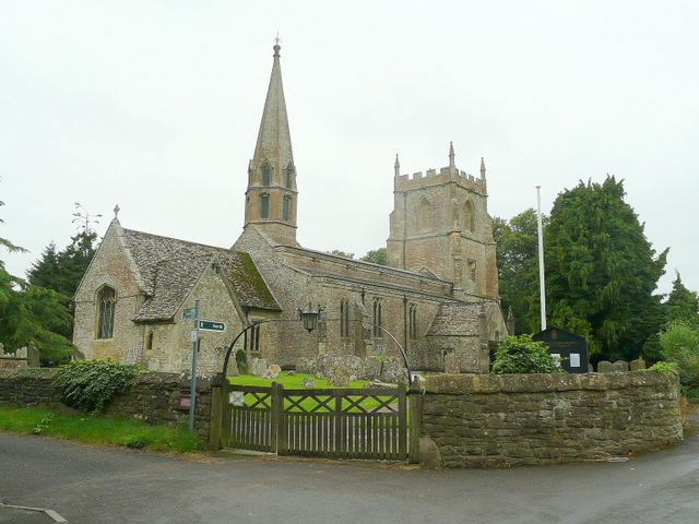 St. Andrew's church, Wanborough, near to Wanborough, Swindon, Great Britain. One of three parish churches in Britain to feature a spire and a tower - see also; SU0987 : St. Mary's church, Purton and SD4108 : Ormskirk Parish Church .